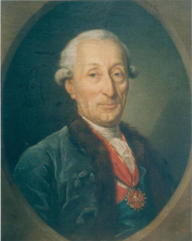 Karl Ernst Biron von Curland (1728 - 1801)